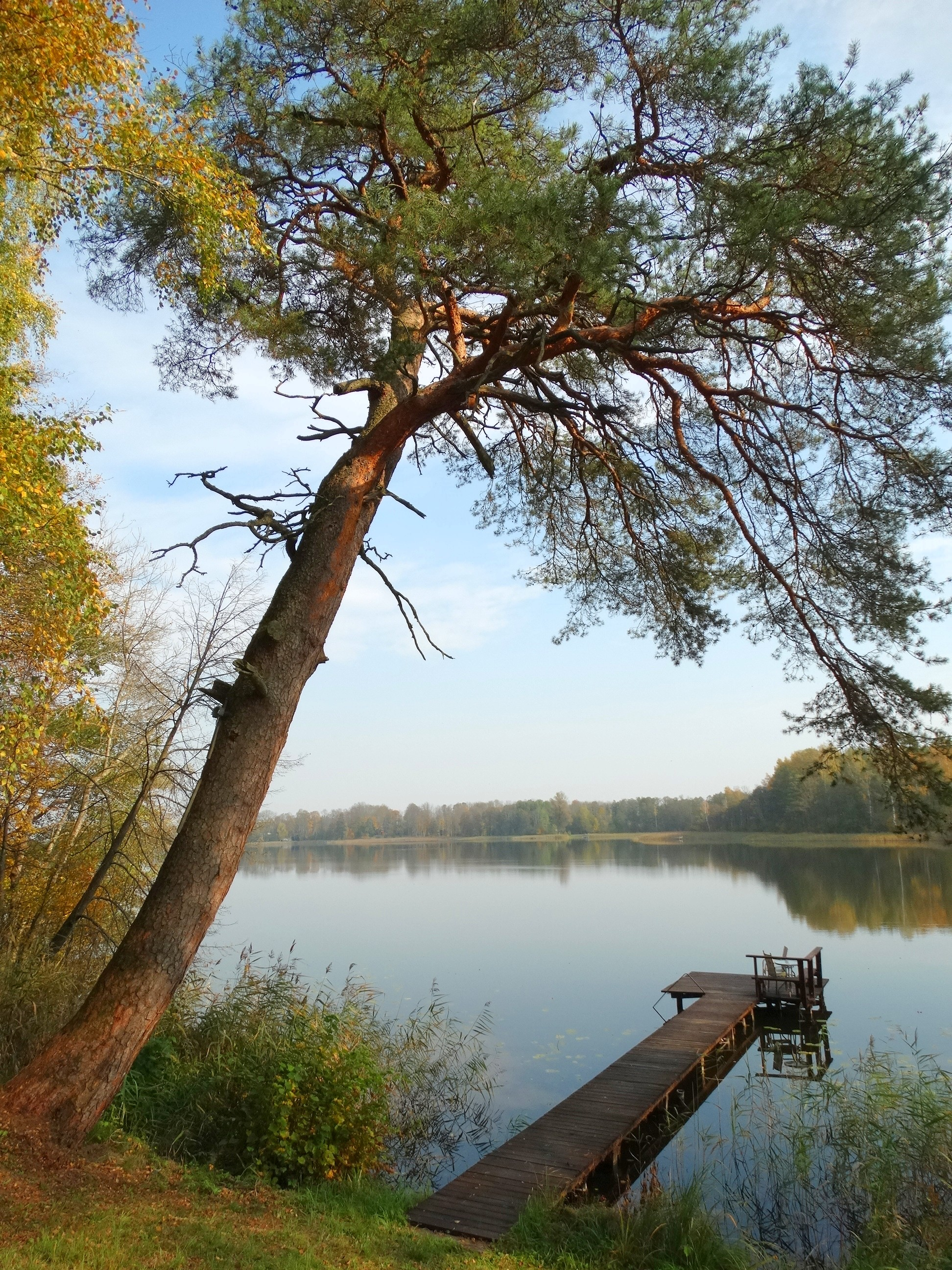 Pine tree in Taikūnai, by Vilkaitis Lake, Lazdijai district, Lithuania